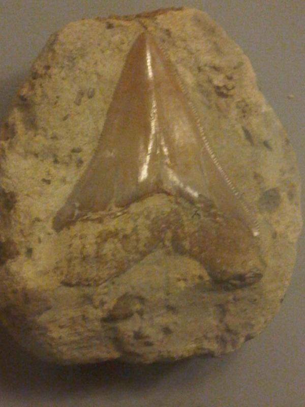 C. megalodon tooth at the National Museum of Natural History, Vilhena Palace, Republic of Malta.